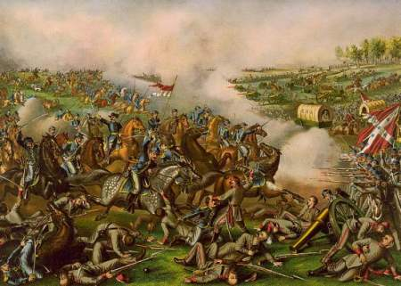 lithograph of Sheridan's charge at Five Forks, published c.1886 by Kurz & Allison, Art Publishers, Chicago, U.S.A.